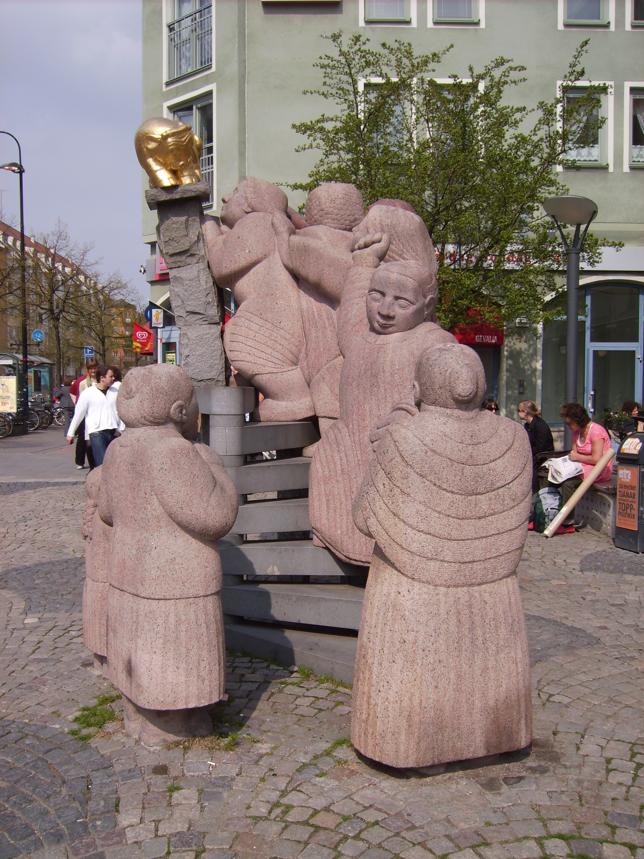 The sculpture “Vår enighets fana” from 1984 on the square ”Skvallertorget” in Norrköping, Sweden. The sculptor Pye Engström (born 1928) want that the visitors shall remember the textile factory women workers in the town’s history. The socialist agitator Kata Dahlström leading the group of women who upset the golden calf.